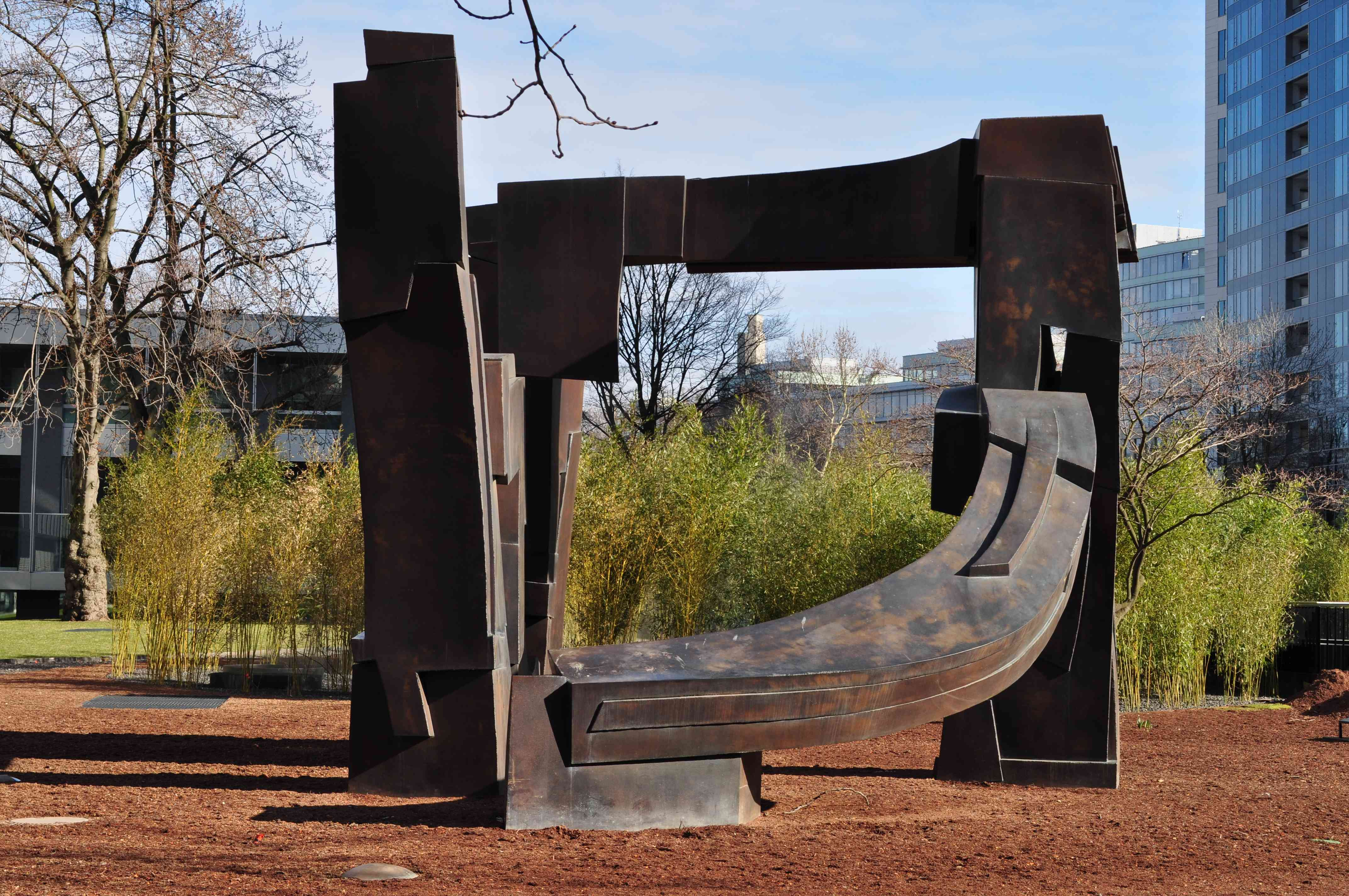 Sculpture "Brückenschlag" from Volker Bartsch. The Sculptur is placed permanently in front of the building of BHF bank, Bockenheimer Landstrasse, Frankfurt am Main